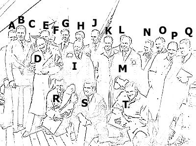 The Australian cricket team on board the R.M.S. Strathaird en route to England for the 1948 Tour. Locator image for Image:Bsb48052.jpg.